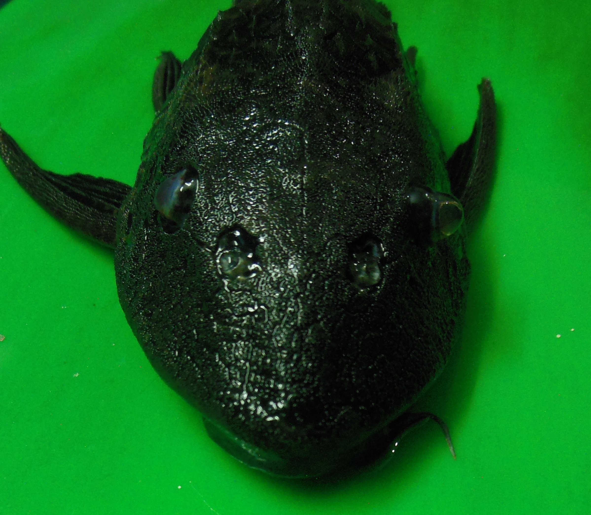 Front view of Pterygoplichthys multiradiatus